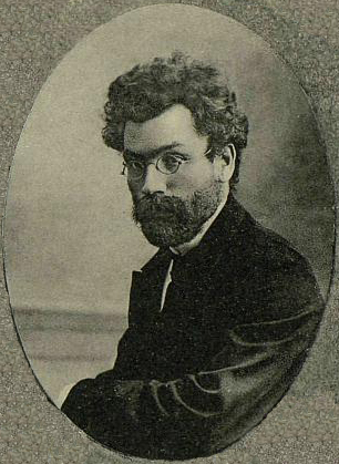 Terentiy Belousov, teacher, social-democrat, a member of the Third Russian State Duma, 1907-1912